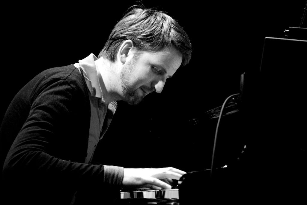 Rembrandt Frerichs during a concert at the Bimhuis (Amsterdam), 17 February 2010